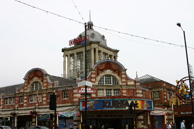 Kursaal Ballrooms. Southend-on-sea